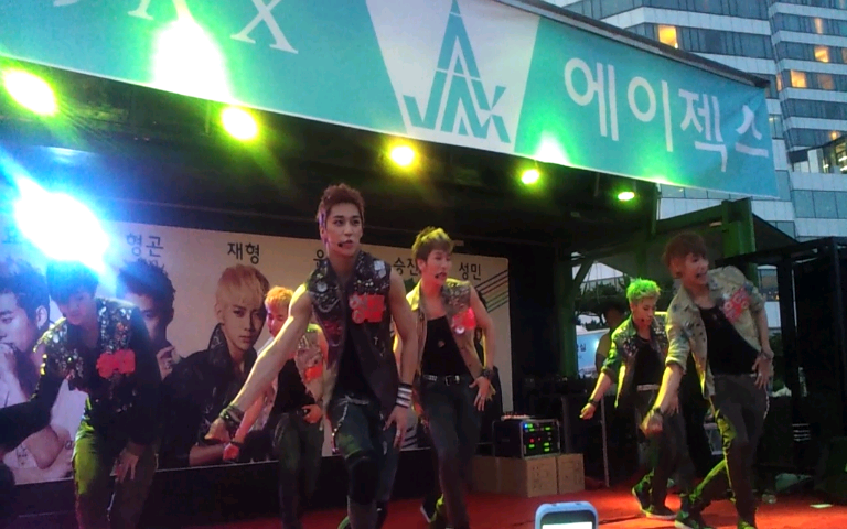 Wing Car 2012-07-09